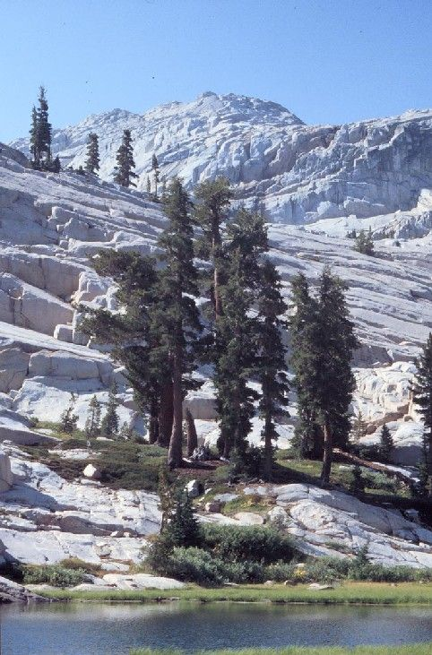 A stand of Mountain Hemlock (Tsuga mertensiana) in the Emigrant Wilderness, California, USA.